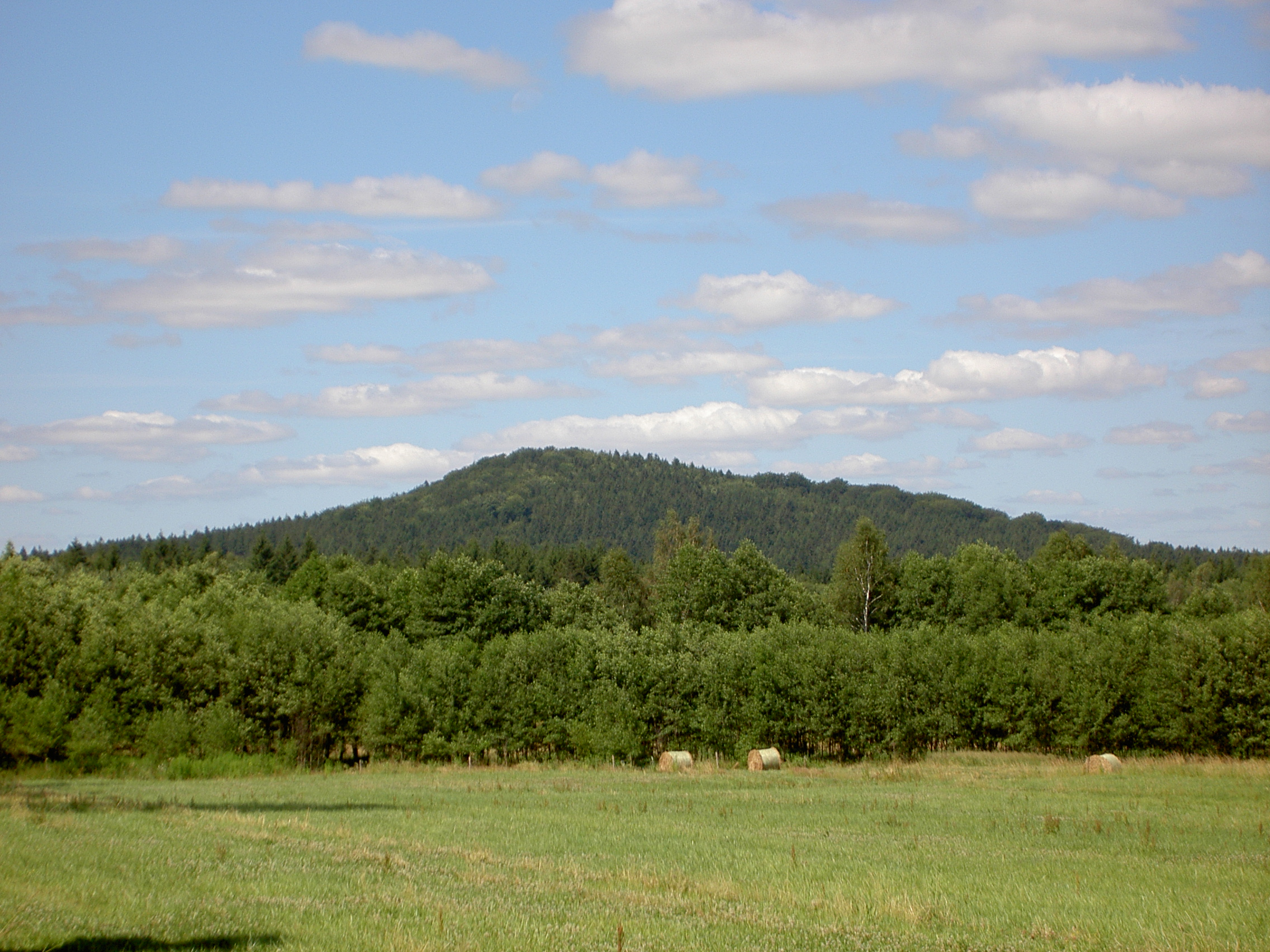 Hill of Chlum (495 m) near Raspenava in Liberec District, Czech Republic. A view from the east, from Ludvíkov pod Smrkem.